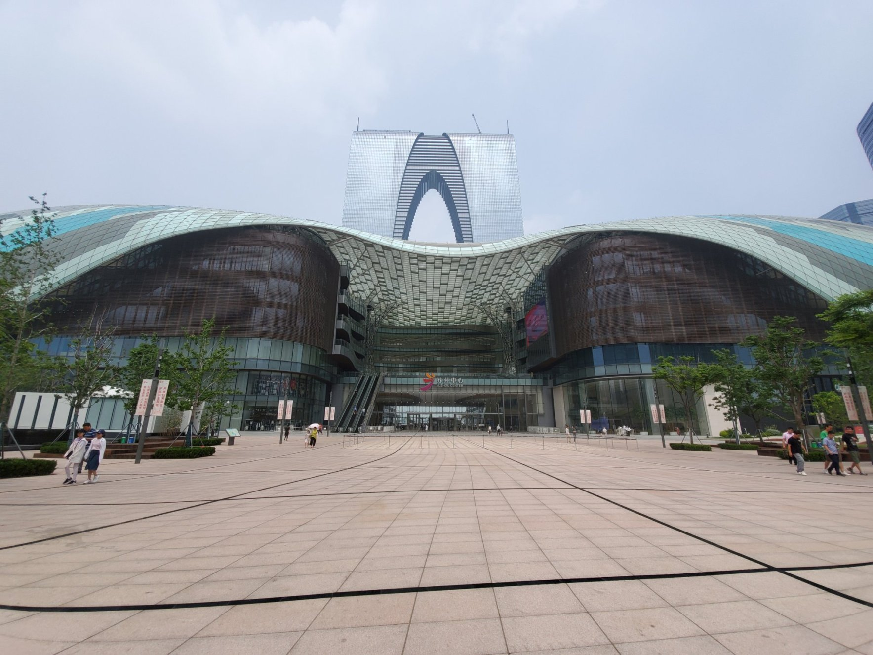 Front view of Suzhou Shopping Center